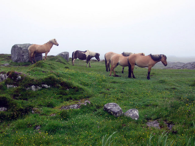 Icelandic horses, Tiree These horses are kept at Caolas and are used for 4 day treks around Tiree through the dunes and over the beaches